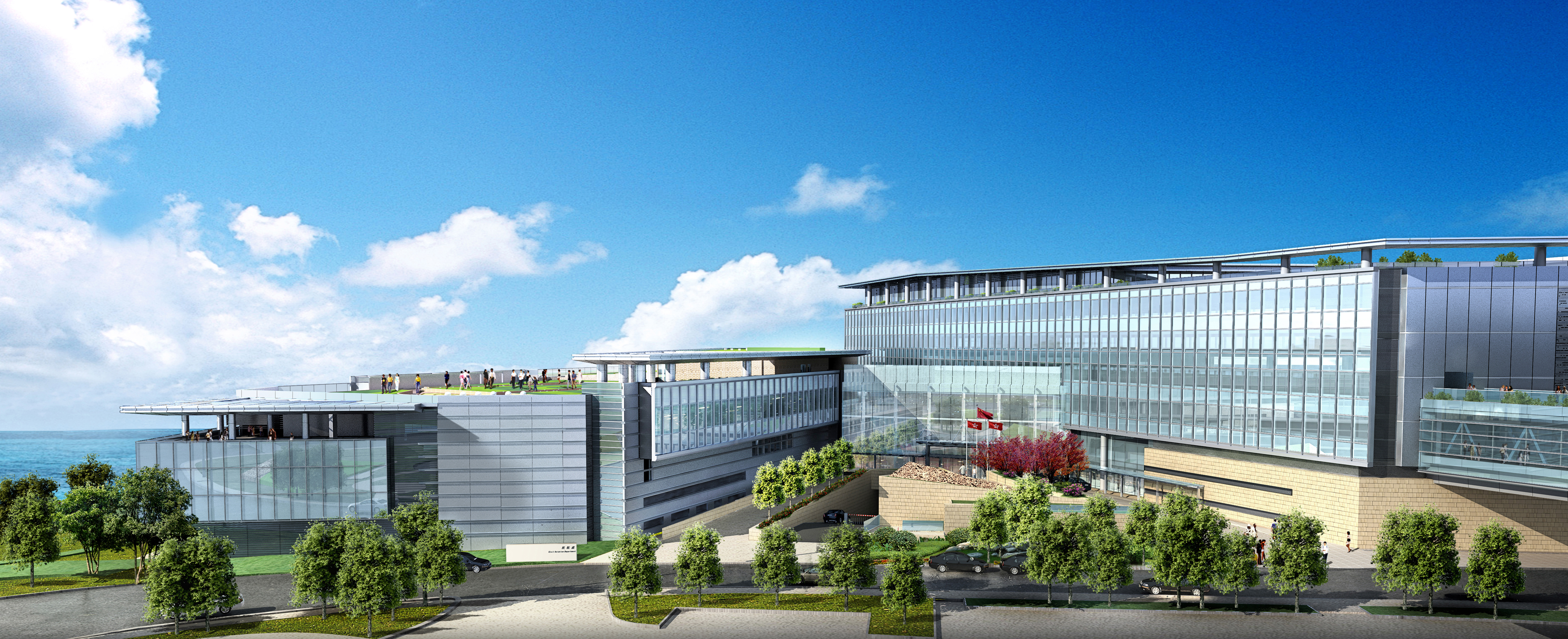 Civil Aviation Department Headquarter, Chek Lap Kok, Hong Kong 中文（香港）: 香港民航處新總部大樓．大嶼山赤臘角